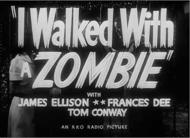 I Walked with a Zombie by Jacques Tourneur (1943)